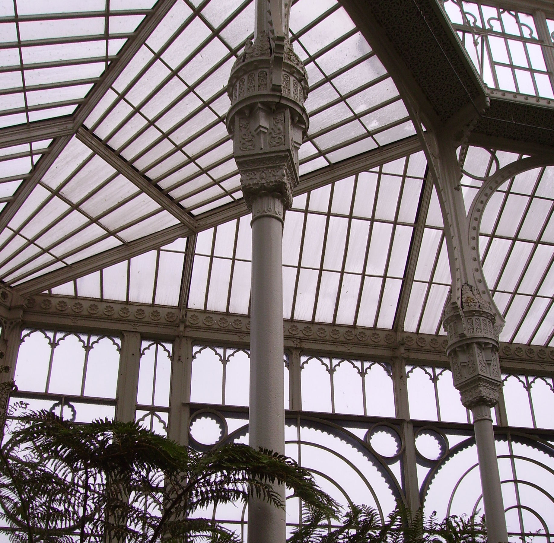 zoological garden and botanical garden Wilhelma in Stuttgart, Germany